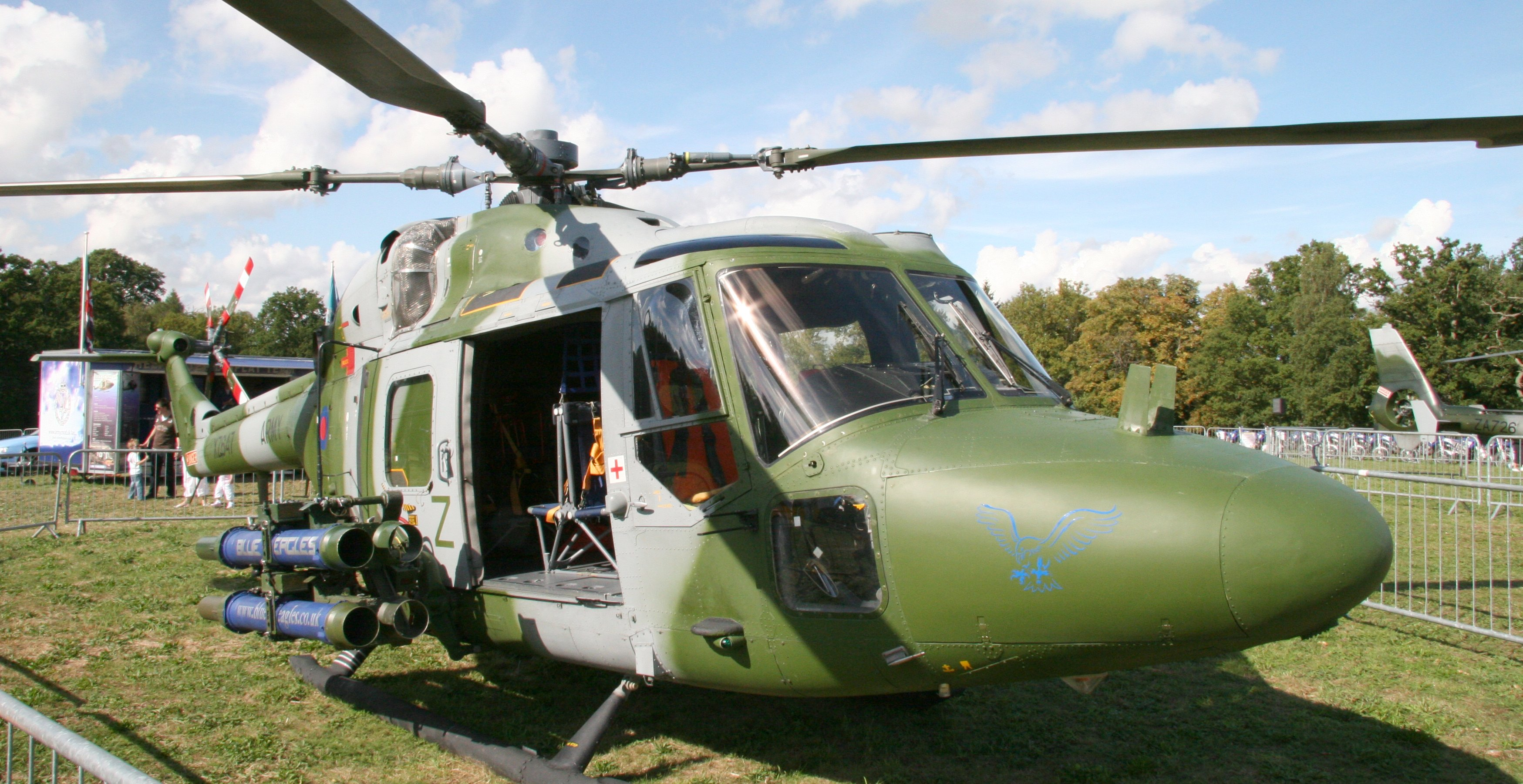 The short-lived "official" display team of the British Army's Air Corps was the Blue Eagles. It was disbanded during 2010. The team operated this Westland Lynx in conjunction with four Westland Gazelle AH.1 helicopters